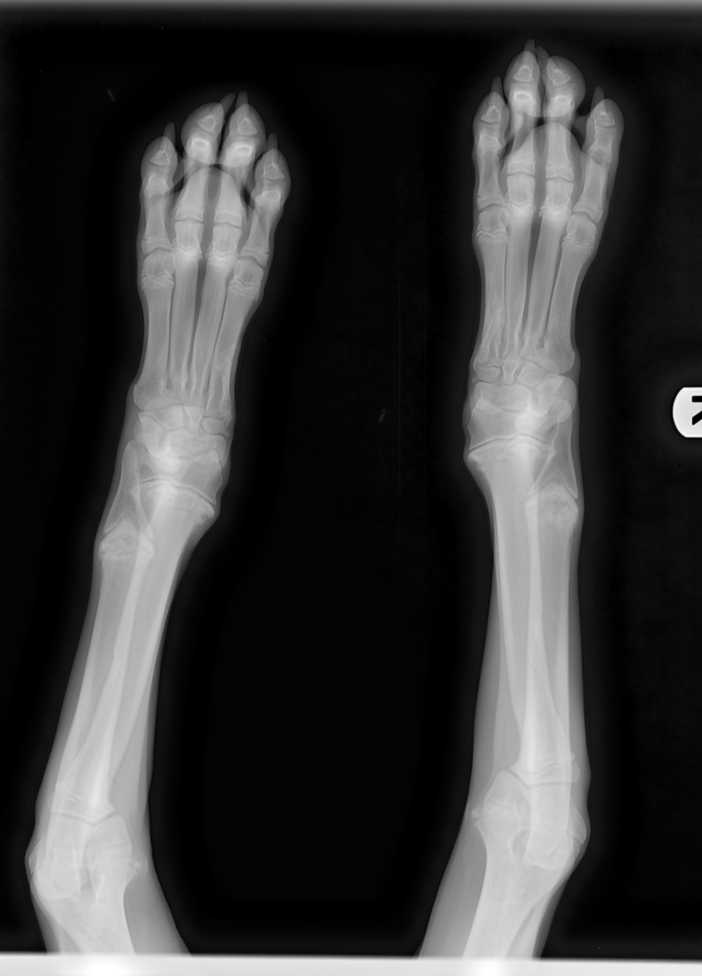 Hypertrophic Osteodystrophy of the radius and ulna of a 4-month-old Weimaraner puppy. Note the "moth-eaten" appearance of metaphyseal area.